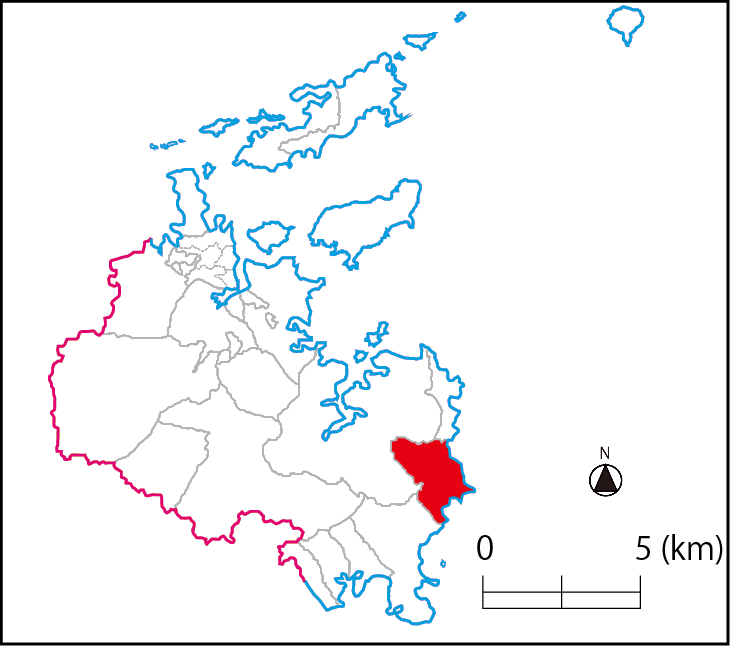 This is the map of Kuzaki-cho, Toba, Mie, Japan.